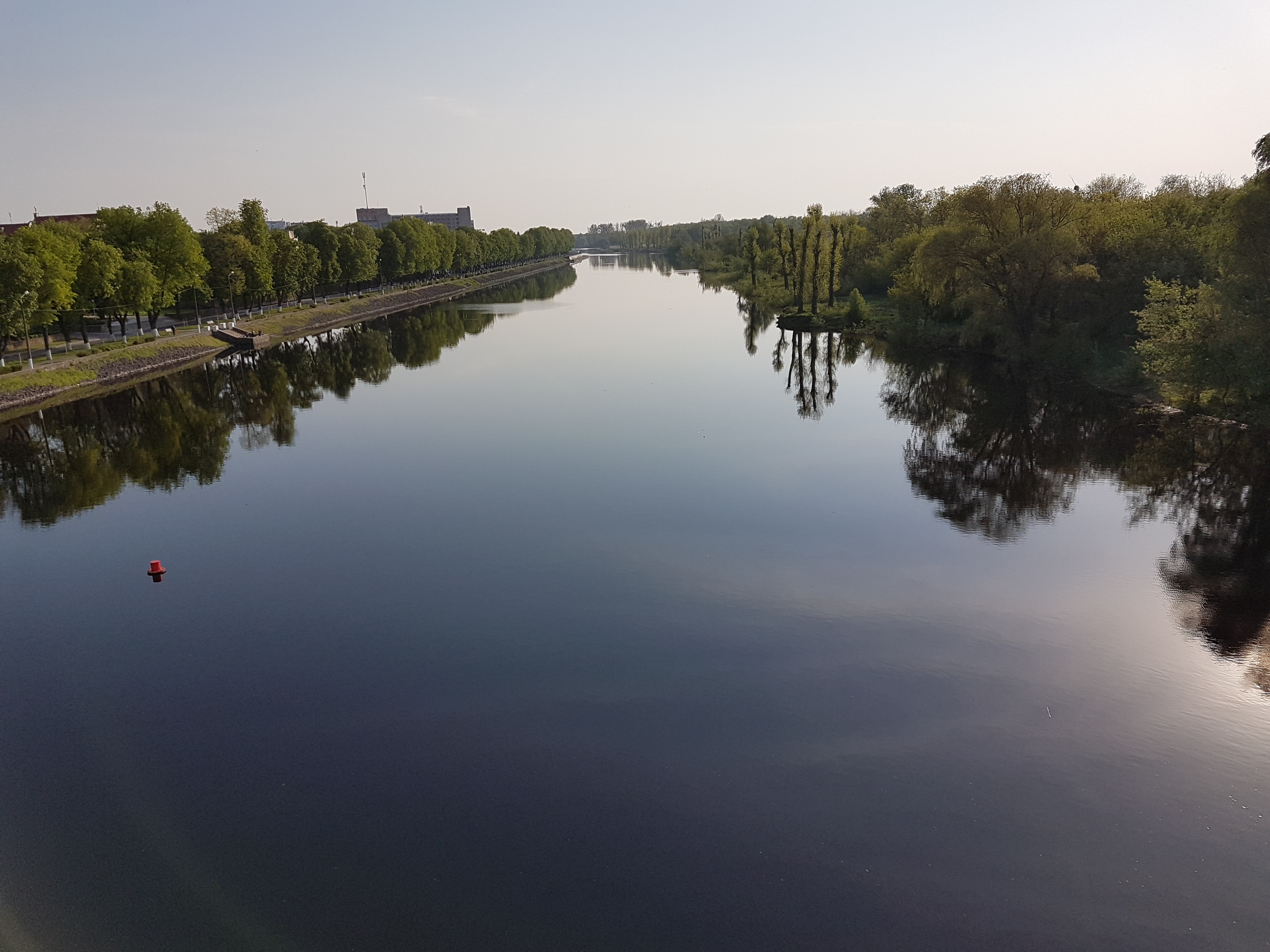 Pina river in the morning